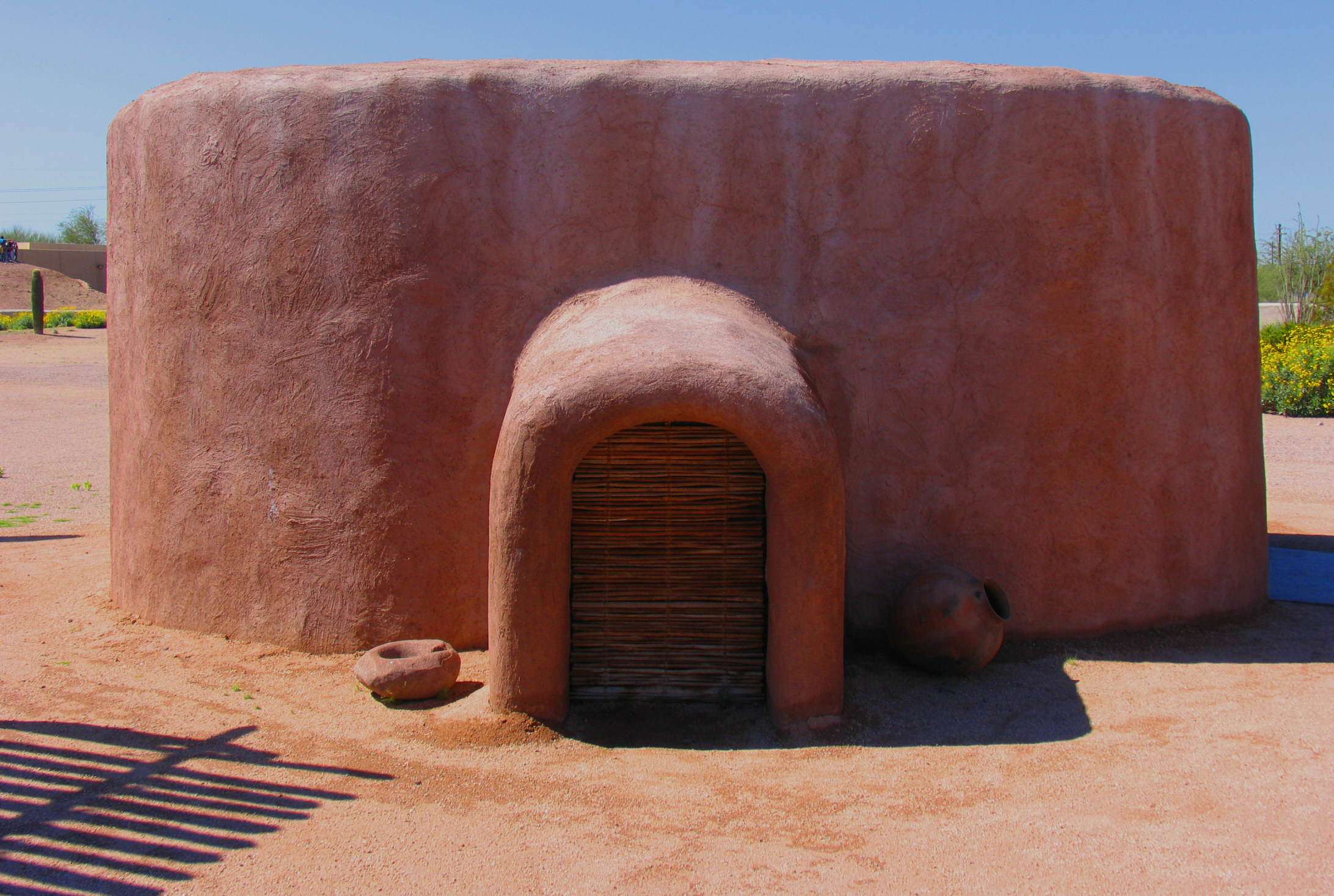 Hohokam Pithouse replica, Pueblo Grande Museum and Archaeological Park, Phoenix, Arizona, USADwelling at Pueblo Grande Museum